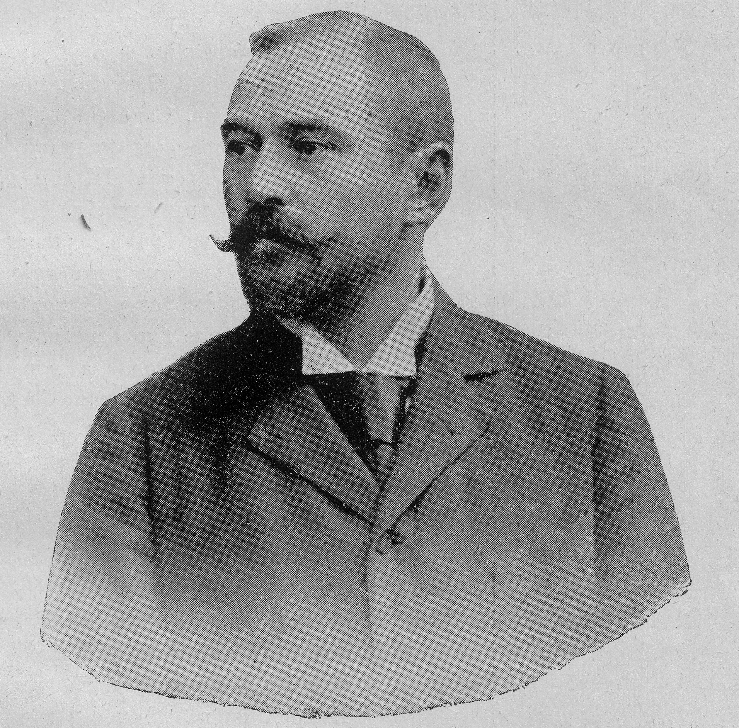 A photo of Joca Savić (1847-1915), a German actor and director of Serbian origin.Taken from the 1898 edition of the calendar Orao. Srpski (latinica): Fotografija Joce Savića (1847-1915), nemačkog glumca i reditelja srpskog porekla. Preuzeto iz izdanja kalendara Orao za 1898. godinu.